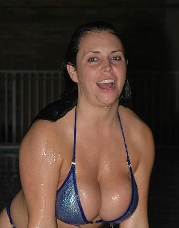 Angelica Sin, taken at the 2005 Nightmoves USA Tampa Show